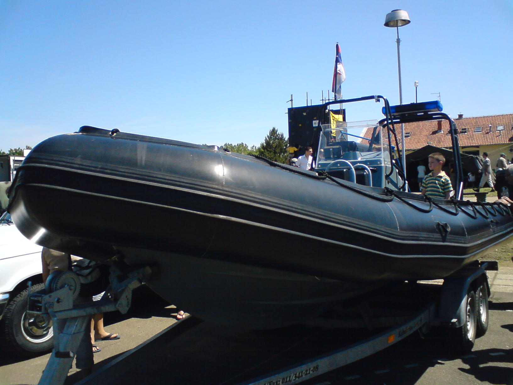 Zodiac patrol boat оf Gendarmerie (Serbia)